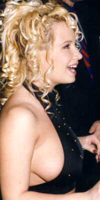 Pornographic actress Rachel Love